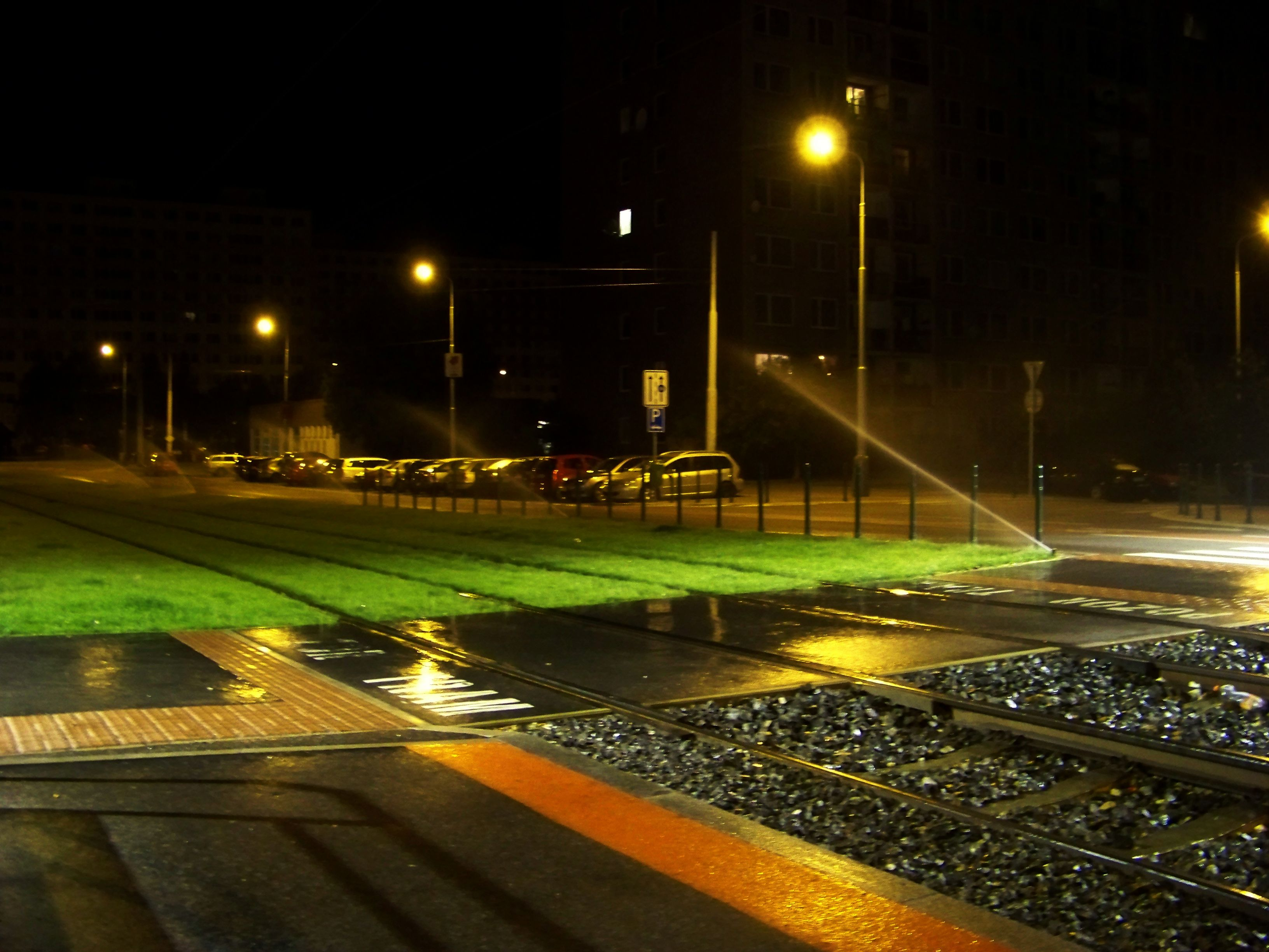 Prague-Řepy, the Czech Republic. Makovského street, night sprinkling of grass-covered tram track.